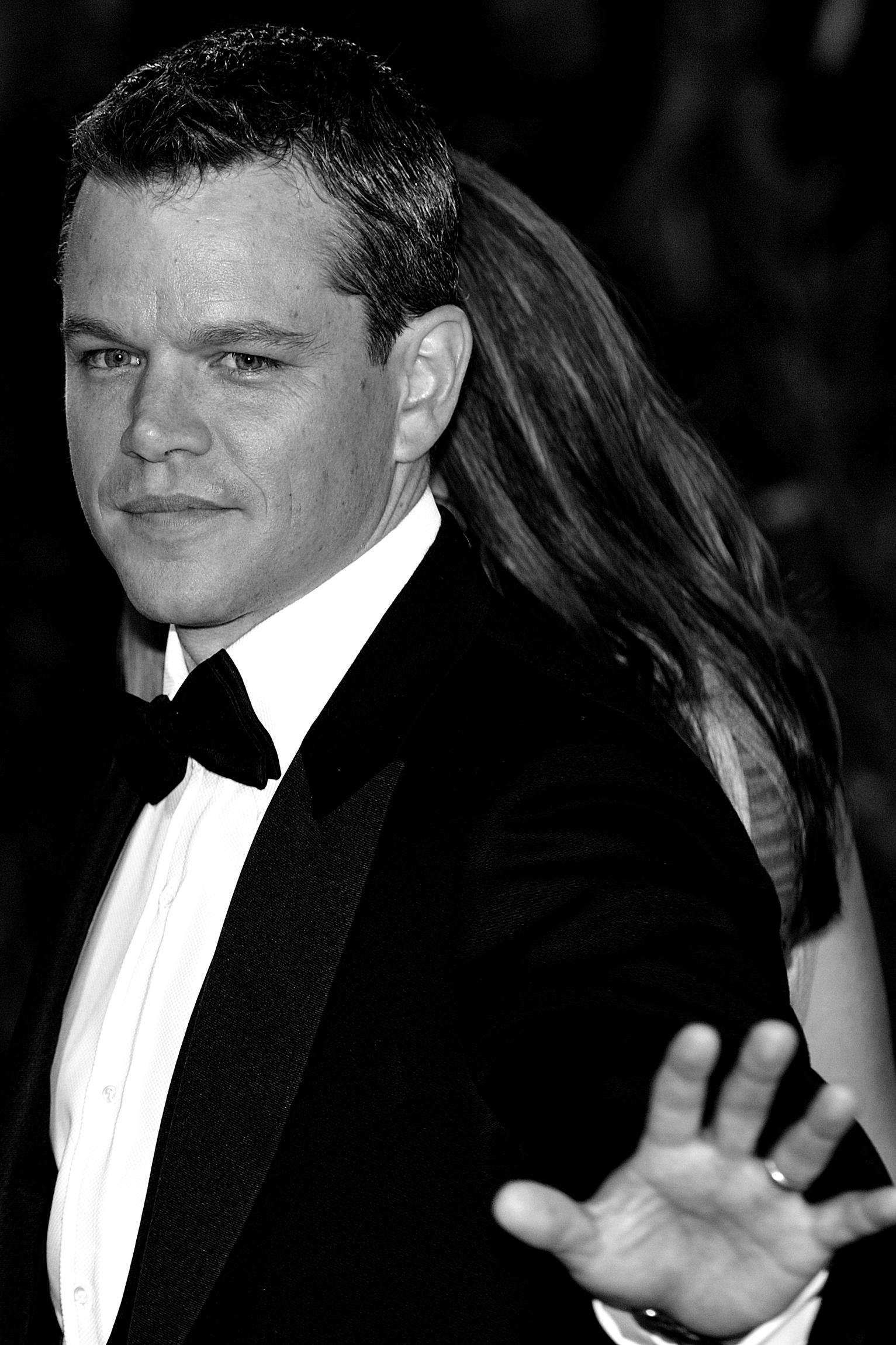 Actor Matt Damon - 66th Venice International Film Festival.